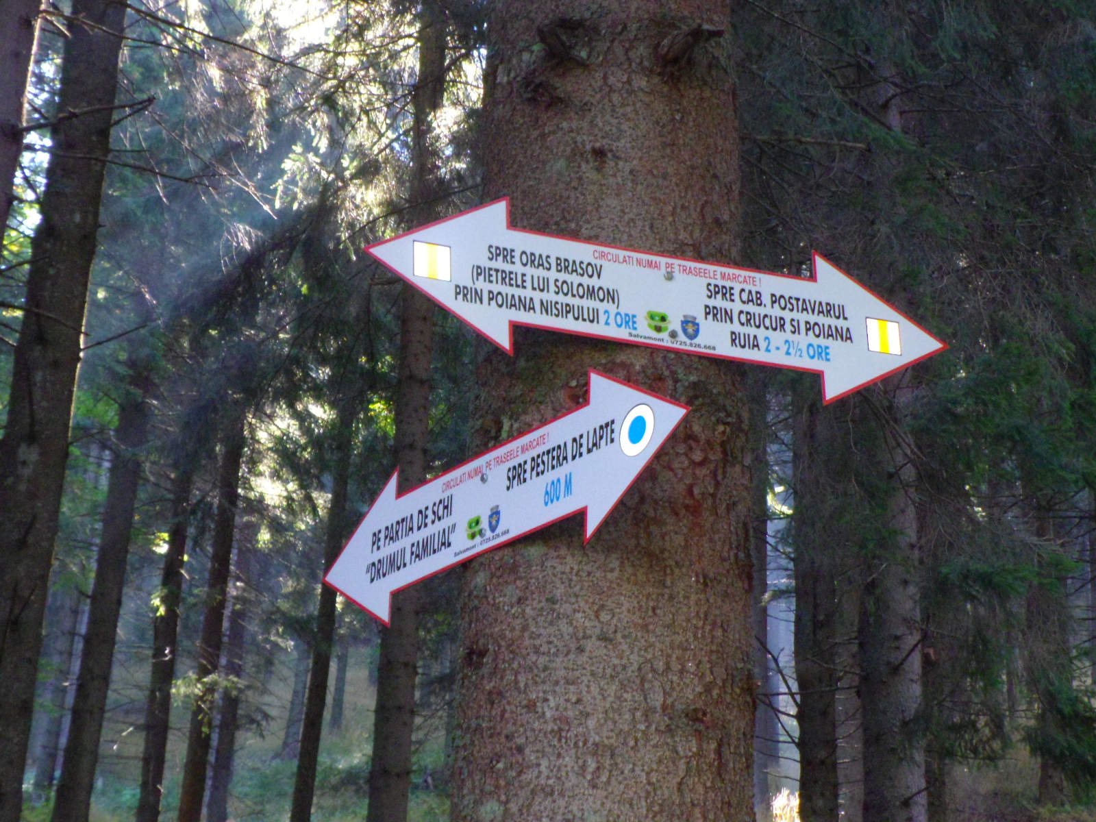 Hiking trail signs in Romania